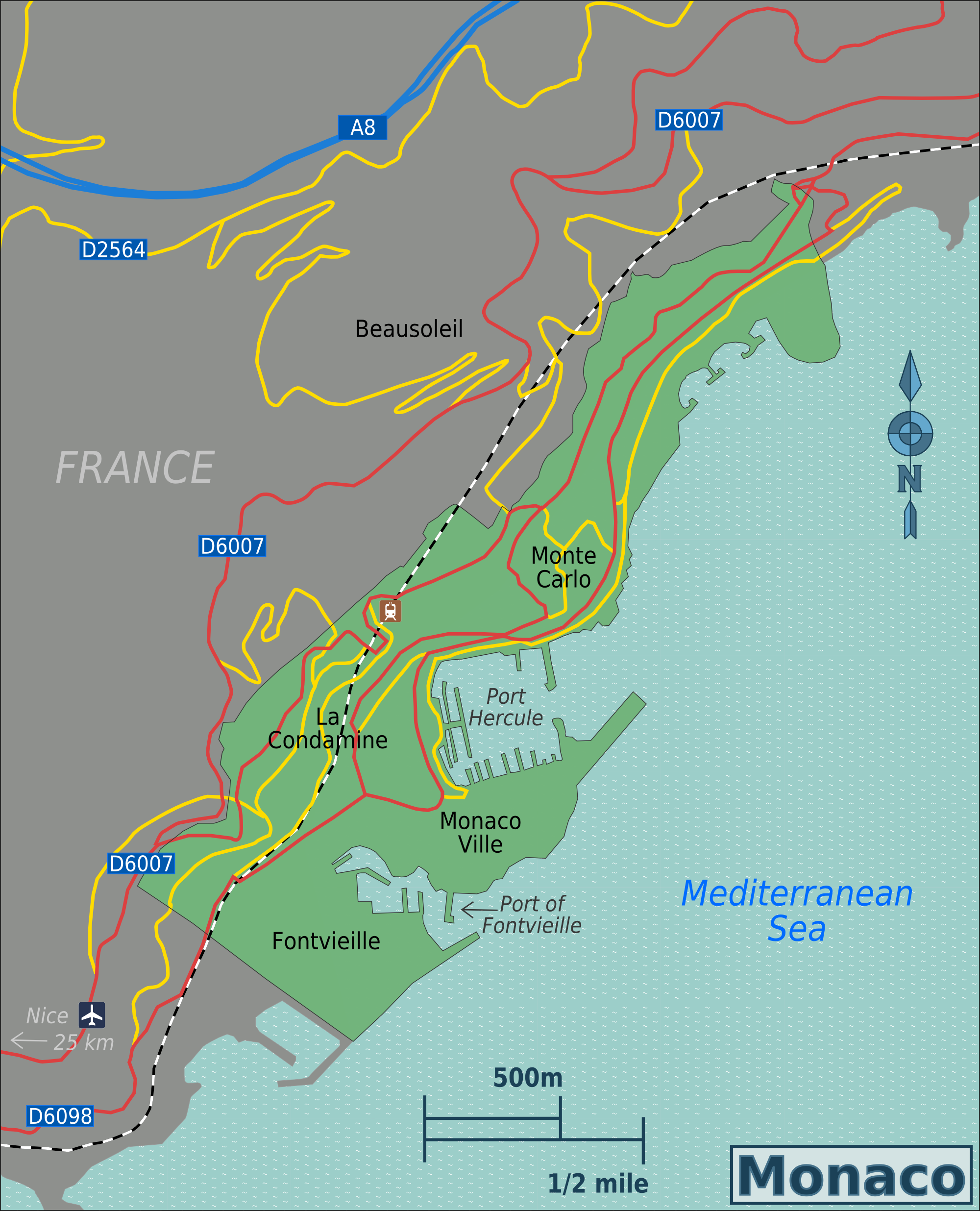 Map of Monaco for use on Wikivoyage, English version